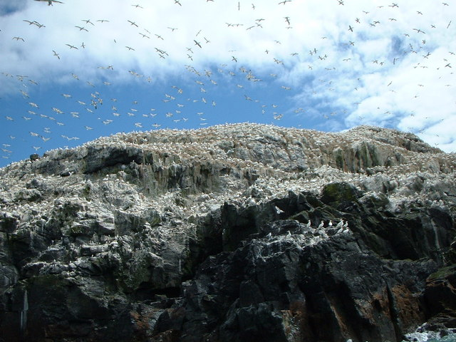 gannets on Grassholm. Nature reserve – no public landings allowed - large gannetry – tens of thousands nesting. Unsure of exact location photo taken from as onboard RIB (boat) and not sure which area of island we were facing when snaps taken.